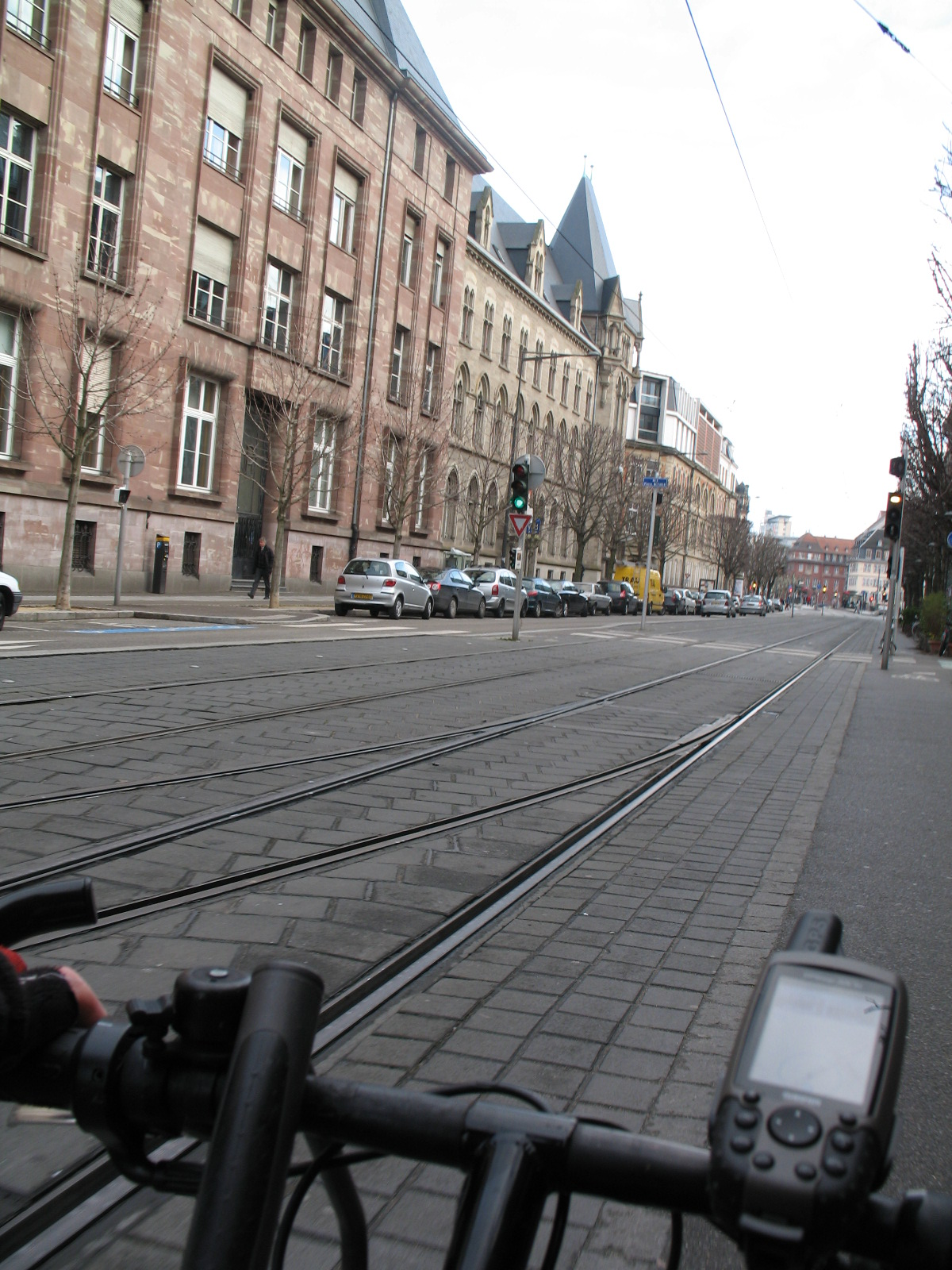 OpenStreetMap. Mapping Strasbourg.